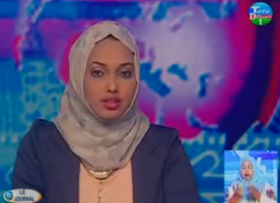 News show on Radio Television of Djibouti.